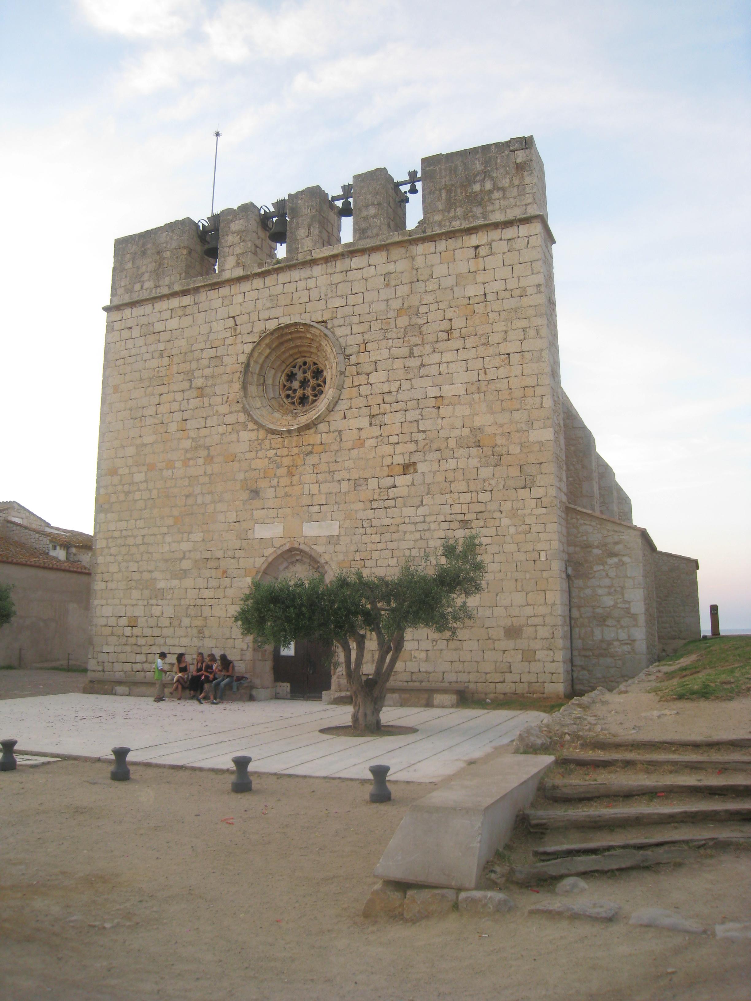 Church of Sant Martí Empúries